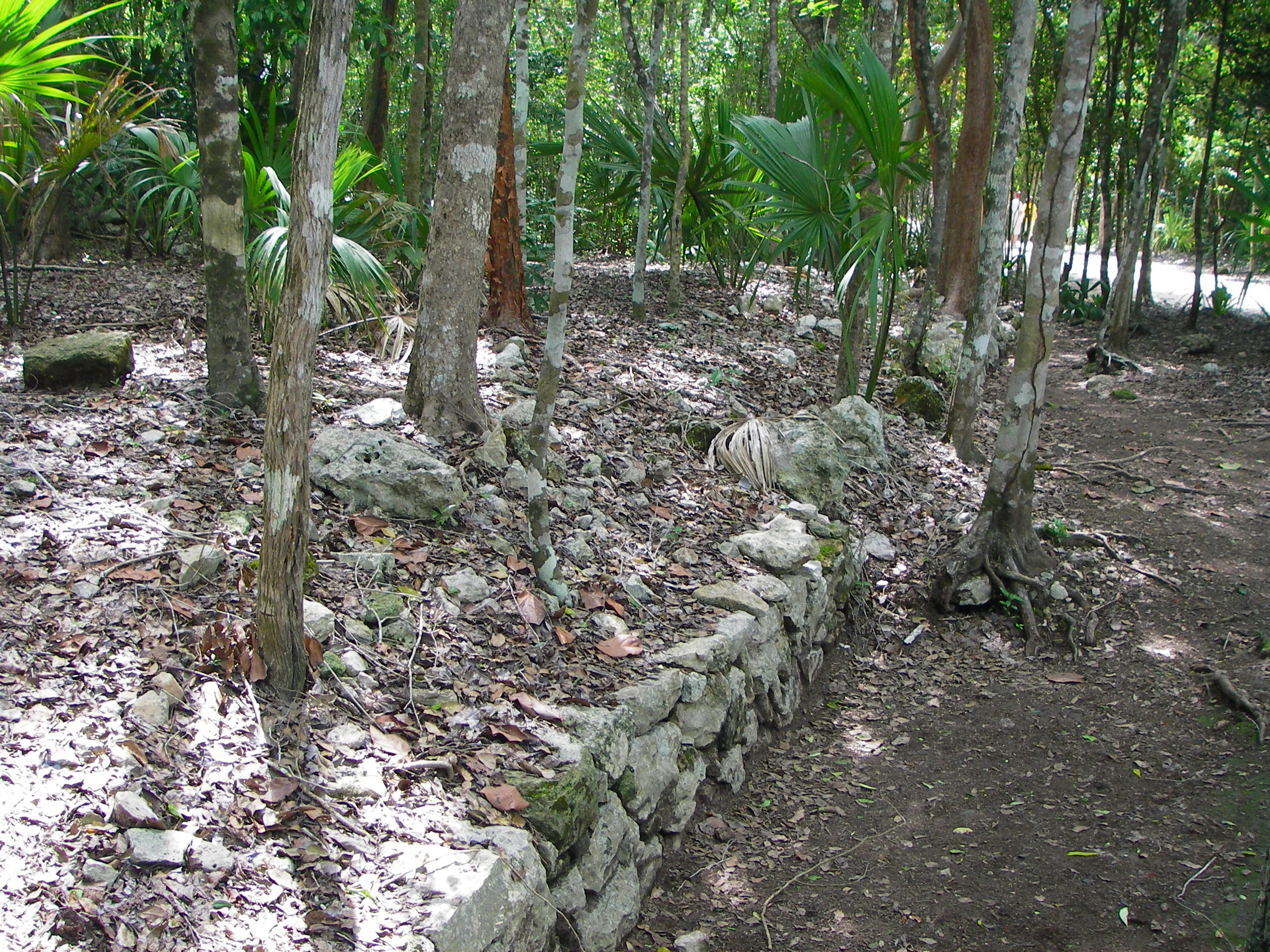 Maya site of Coba, Yucatan, Mexico. Sacbe or "white road"